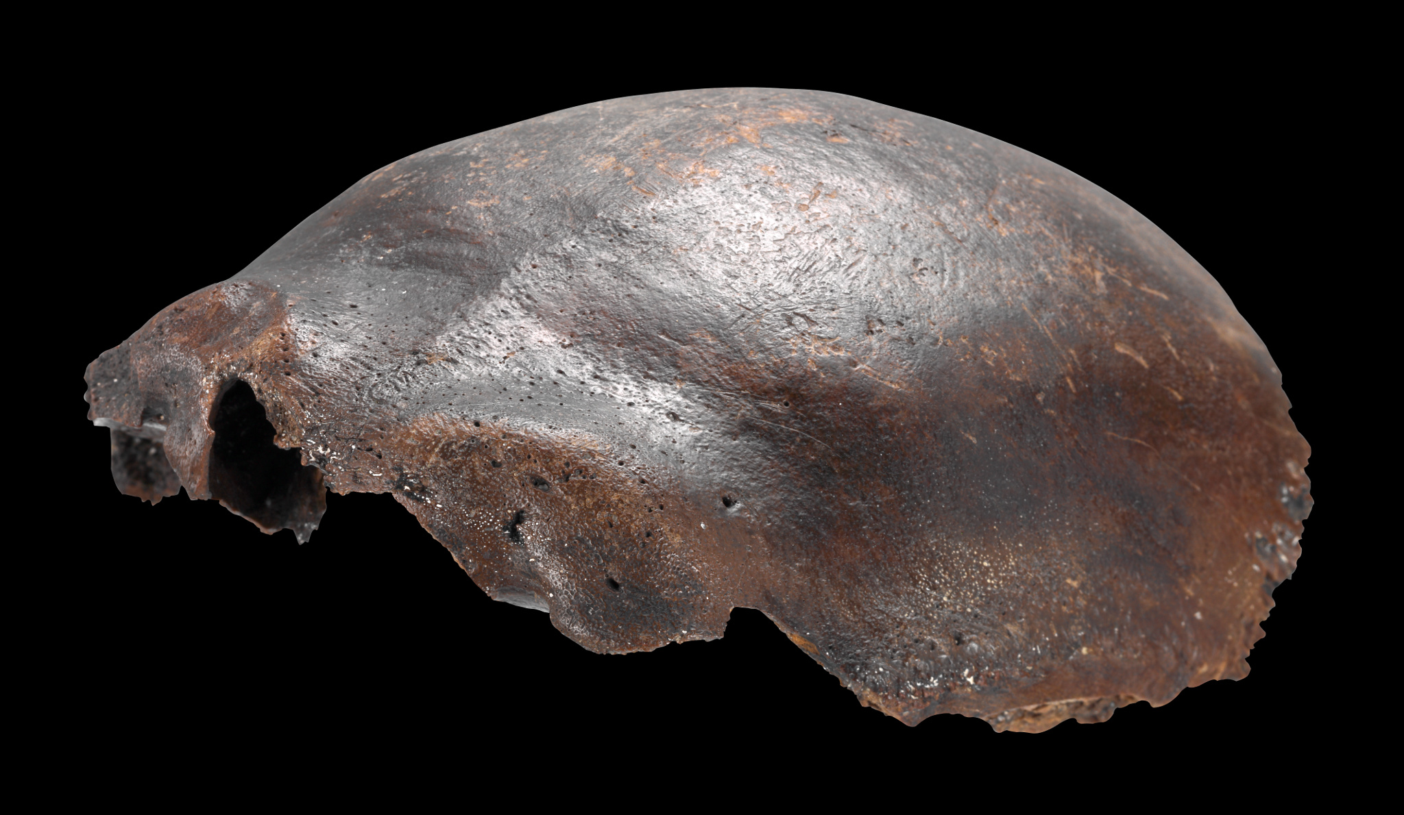 Frontal bone of a human (homo sapiens)